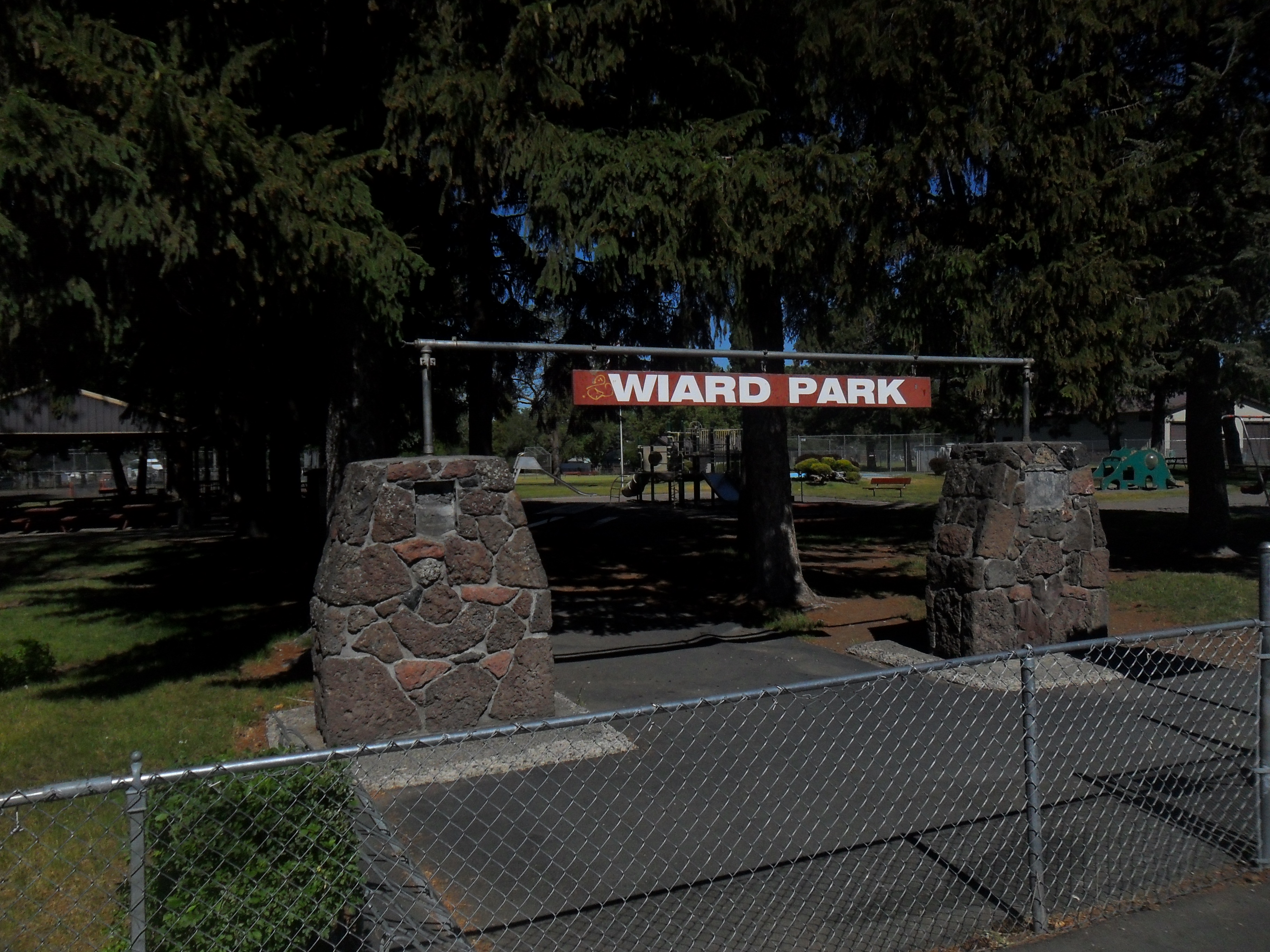 Wiard Park -south entrance - in Klamath Falls, Oregon.